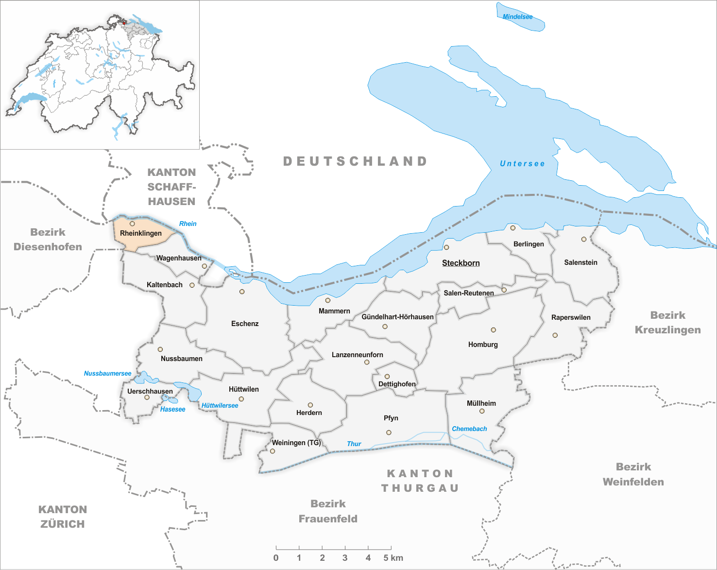 Municipality Rheinklingen